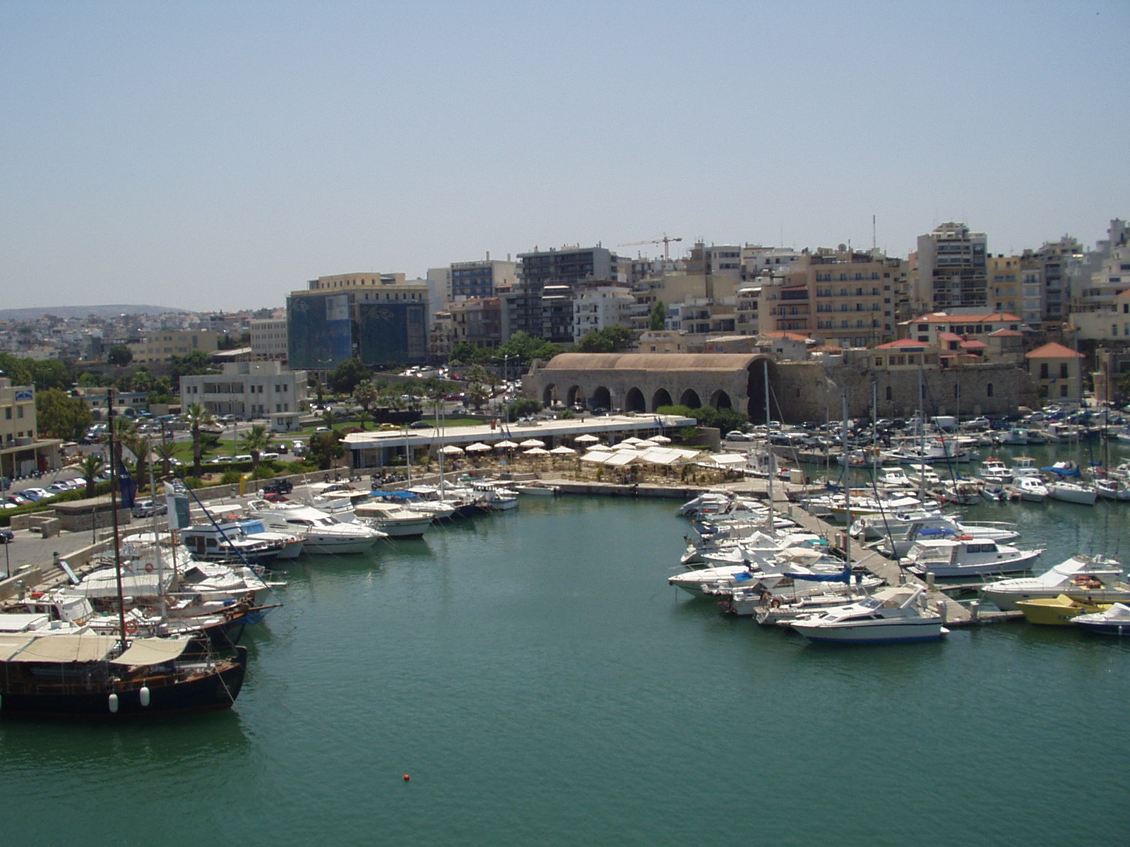 Picture of Heraklion on Crete. View from the Castle on the Harbour.